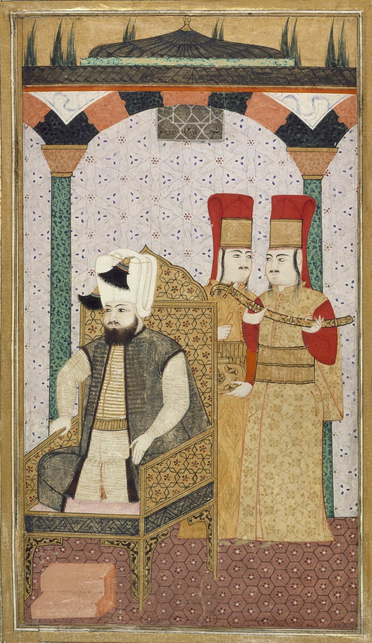 Turkey, about 1600 Manuscripts Ink, opaque watercolor, and gold on paper The Edwin Binney, 3rd, Collection of Turkish Art at the Los Angeles County Museum of Art (M.85.237.34) Islamic Art